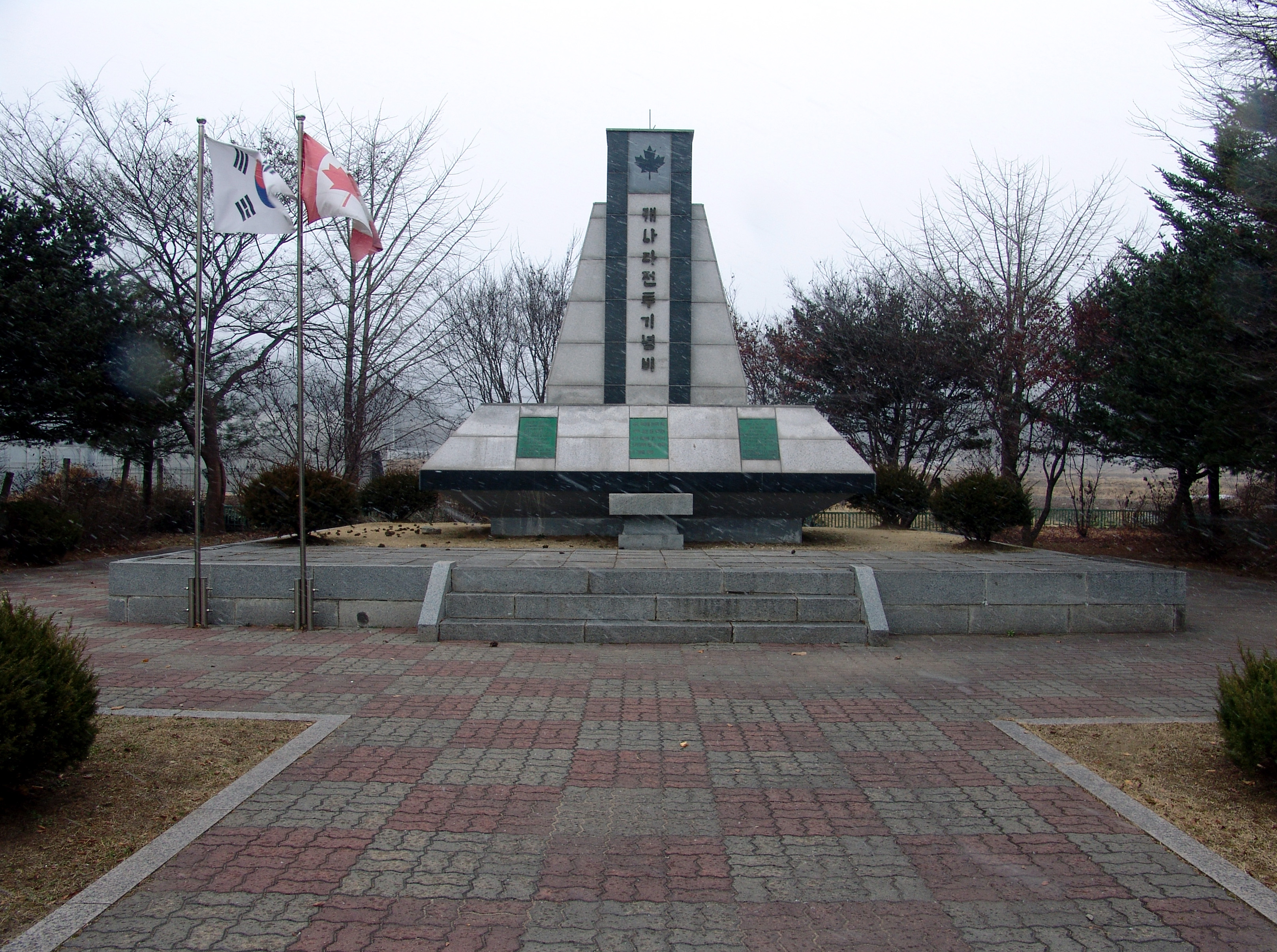 The main Gapyeong Canada Monument. I took the picture.